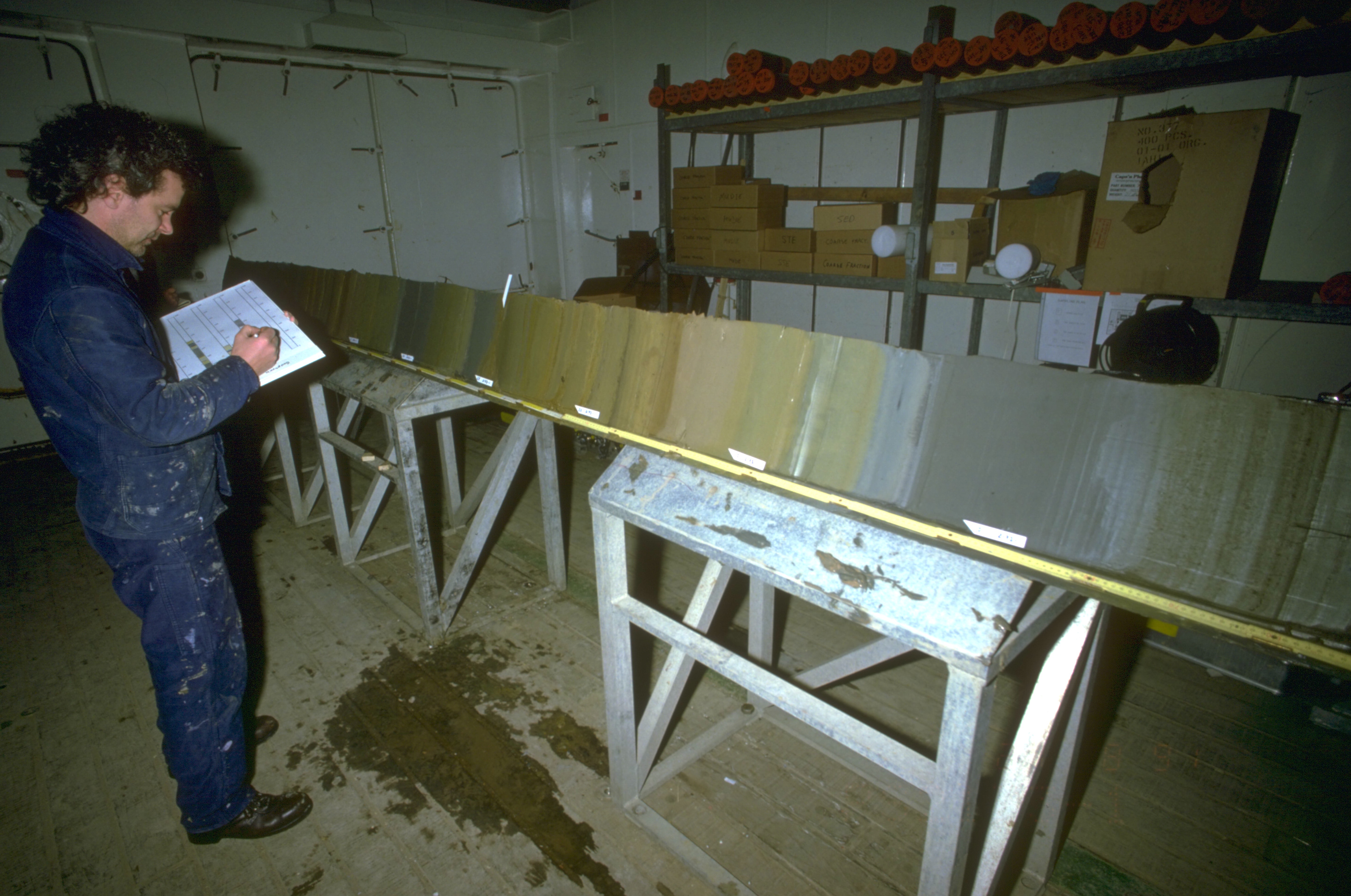 Palaeoclimate archives: Sediment core described by a scientist in a lab of the research vessel POLARSTERN